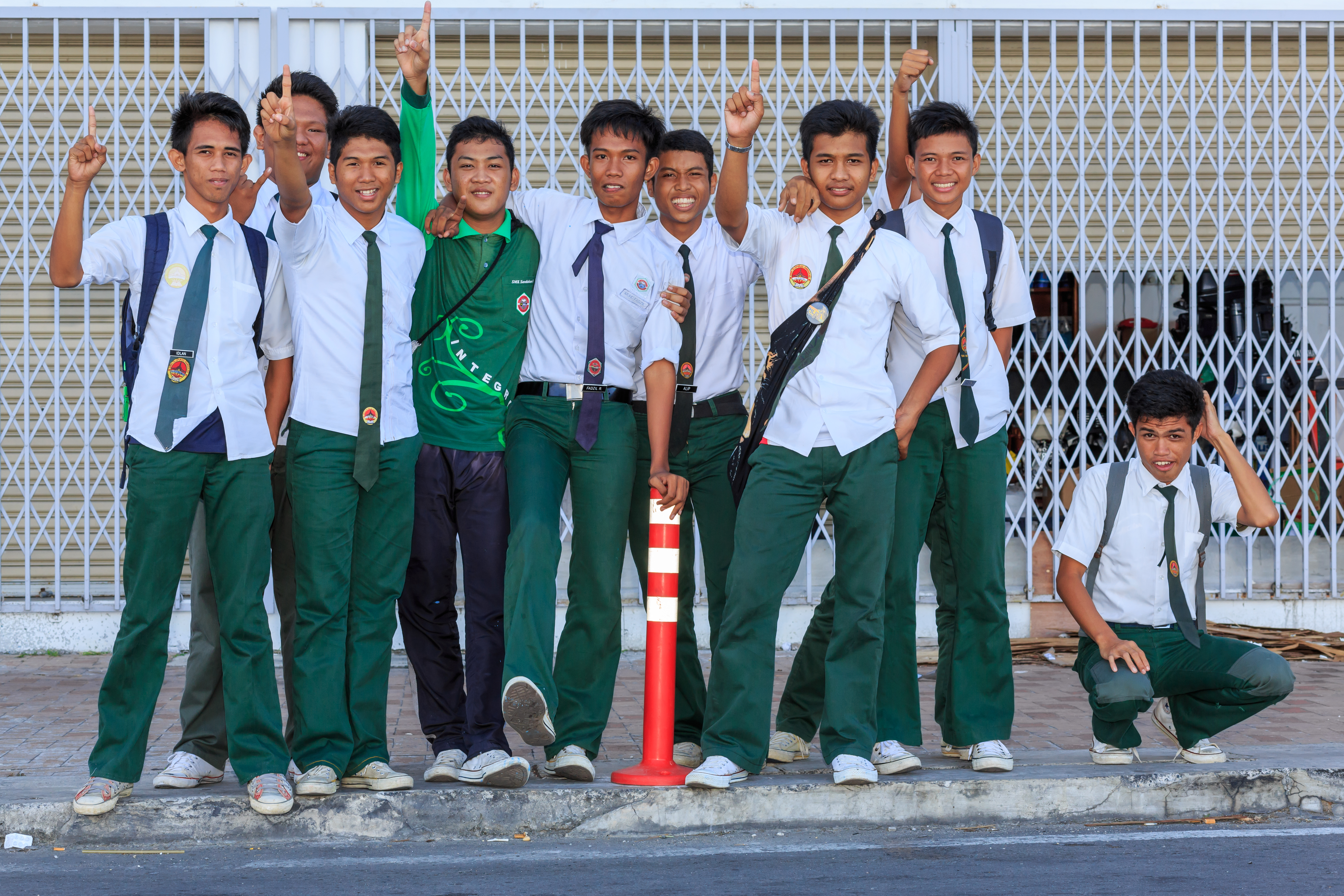 Sandakan, Sabah: Some school boys from secondary school in their distinctive school uniforms posing for the photographer at Harbour Square